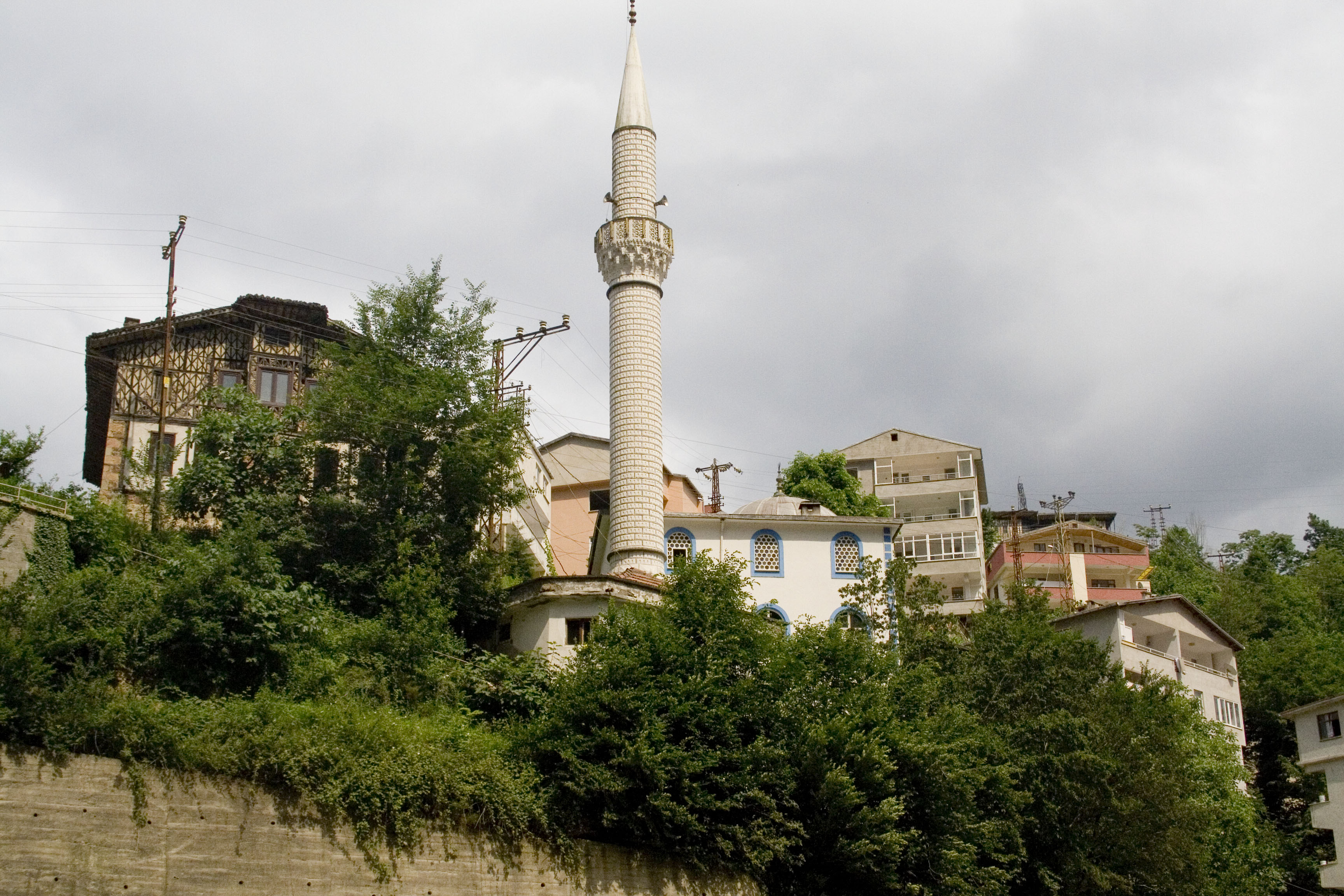 Houses on a hill overlooking Çaykara